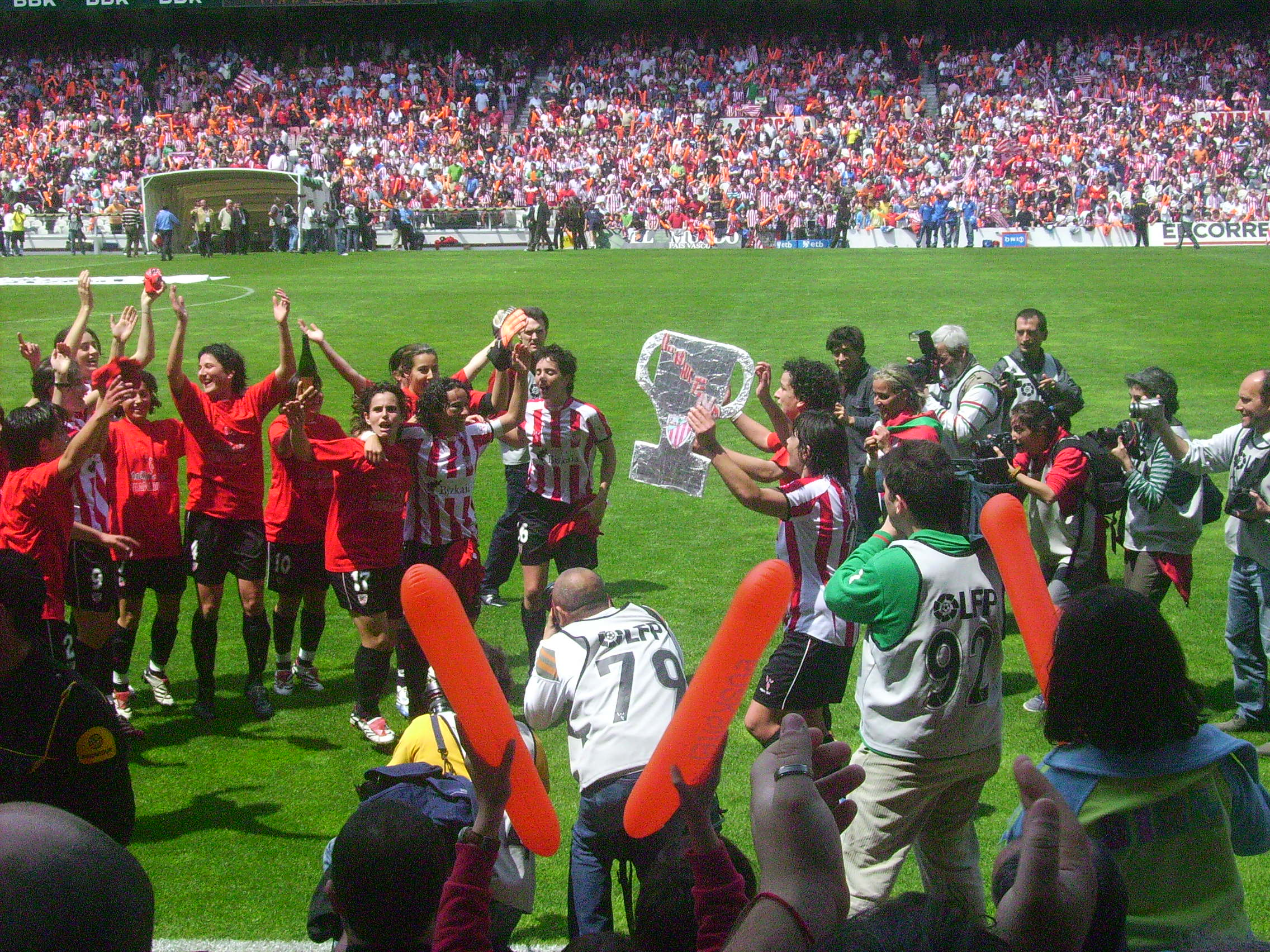 Athletic Bilbao Women's Football Team 2006-2007 League Champions